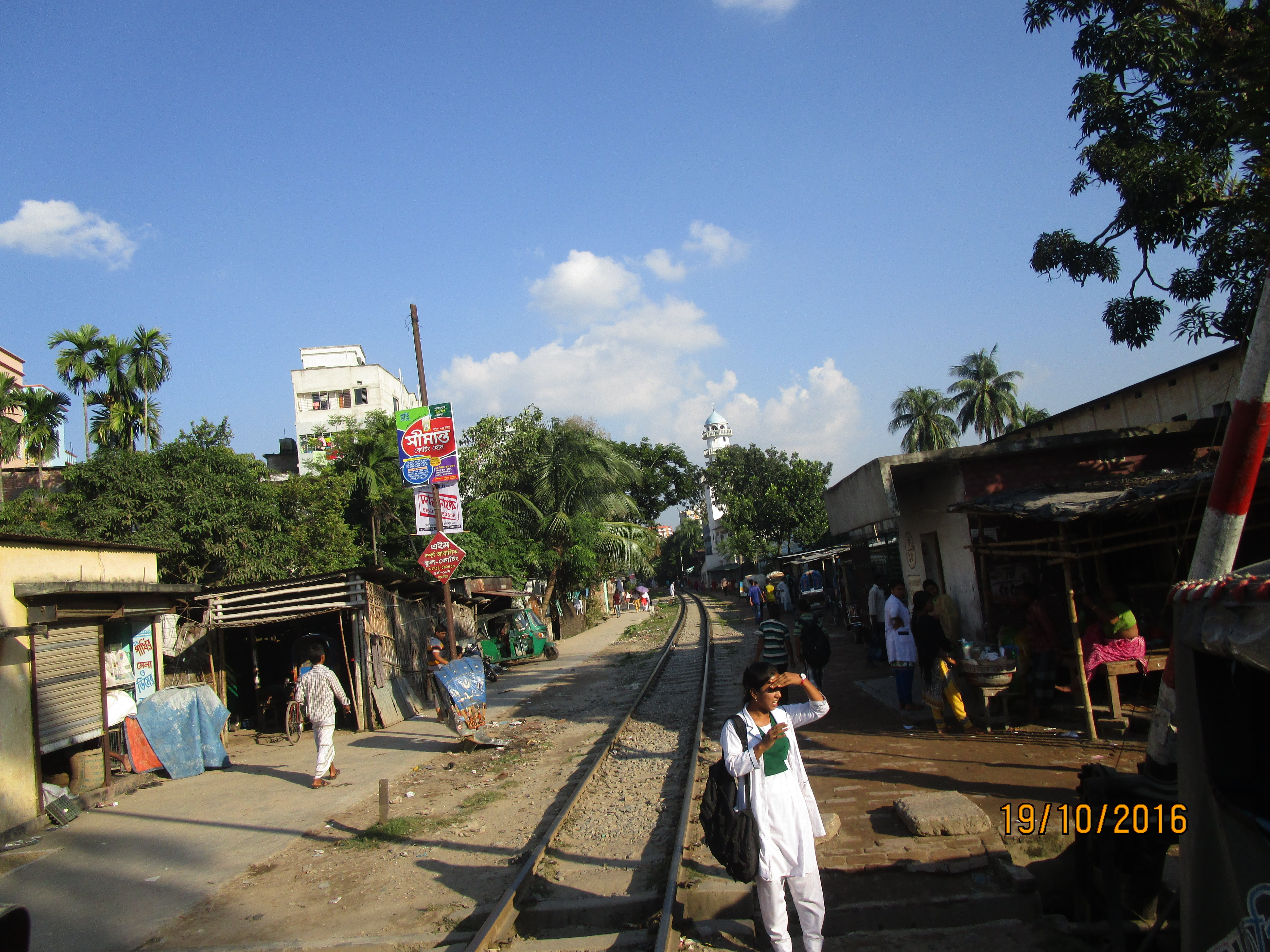 Narayangonj Bahadurabad Ghat Railway at madrasa Quarter Railcrossing, Mymensingh east Side.